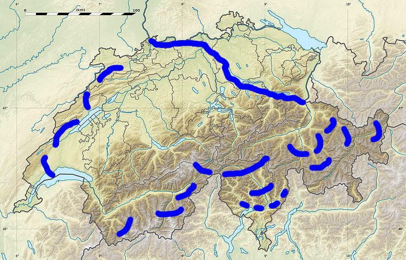 Blank physical map of Switzerland, for geo-location purpose.